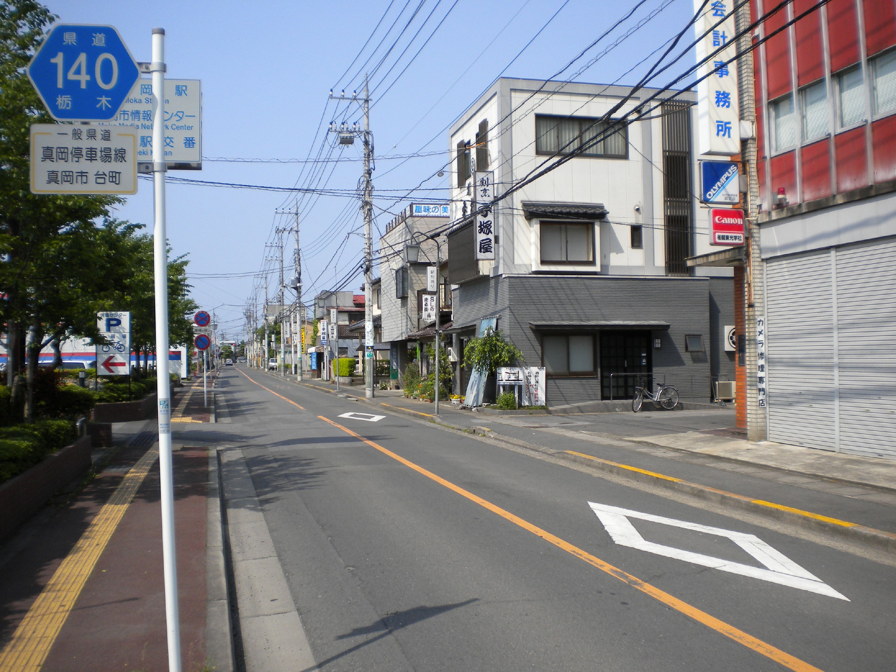 Tochigi prefectural road No.140 on Moka city